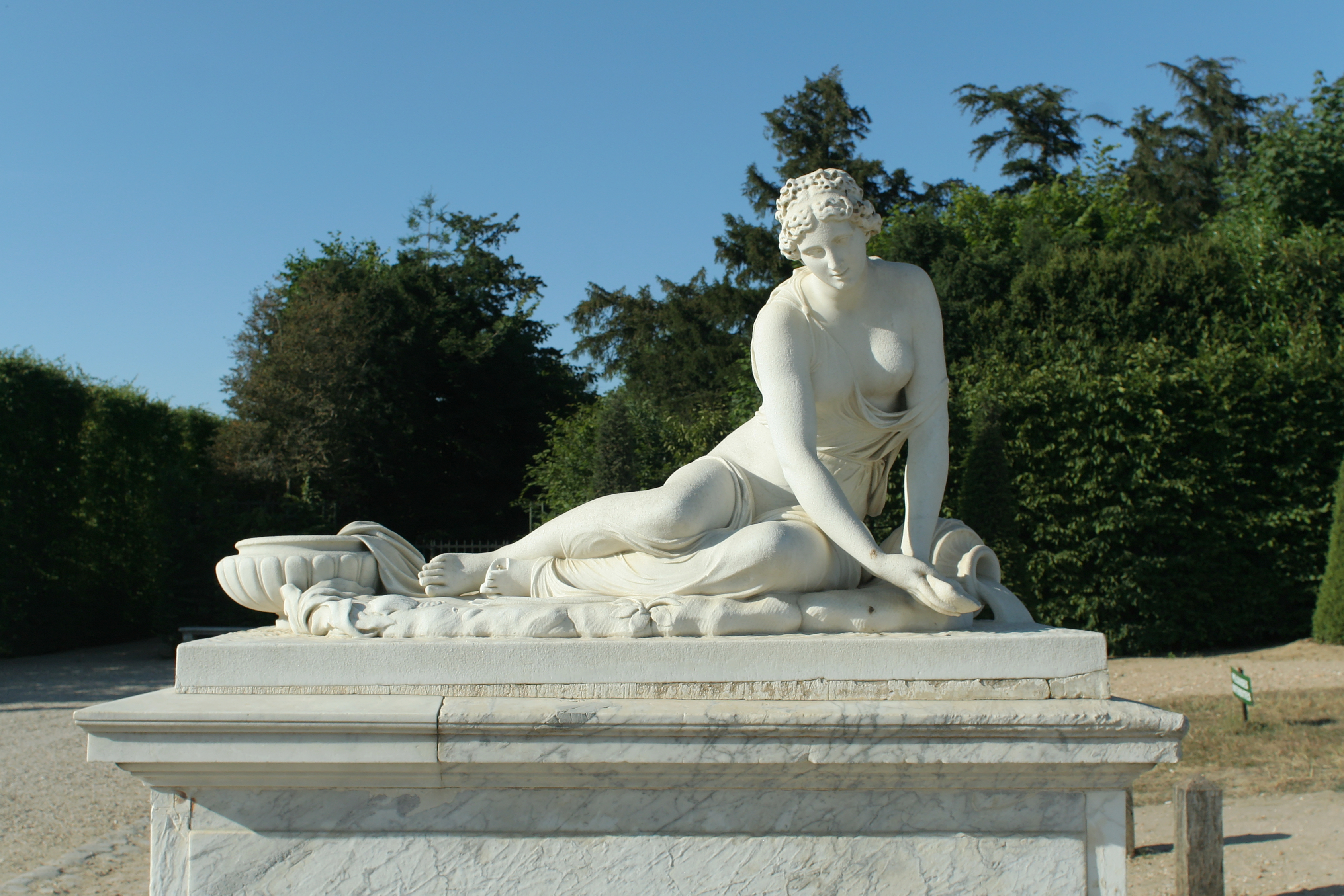 Copy of the Nymph With a Shell by Antoine Coysevox, itself copy after the antique.